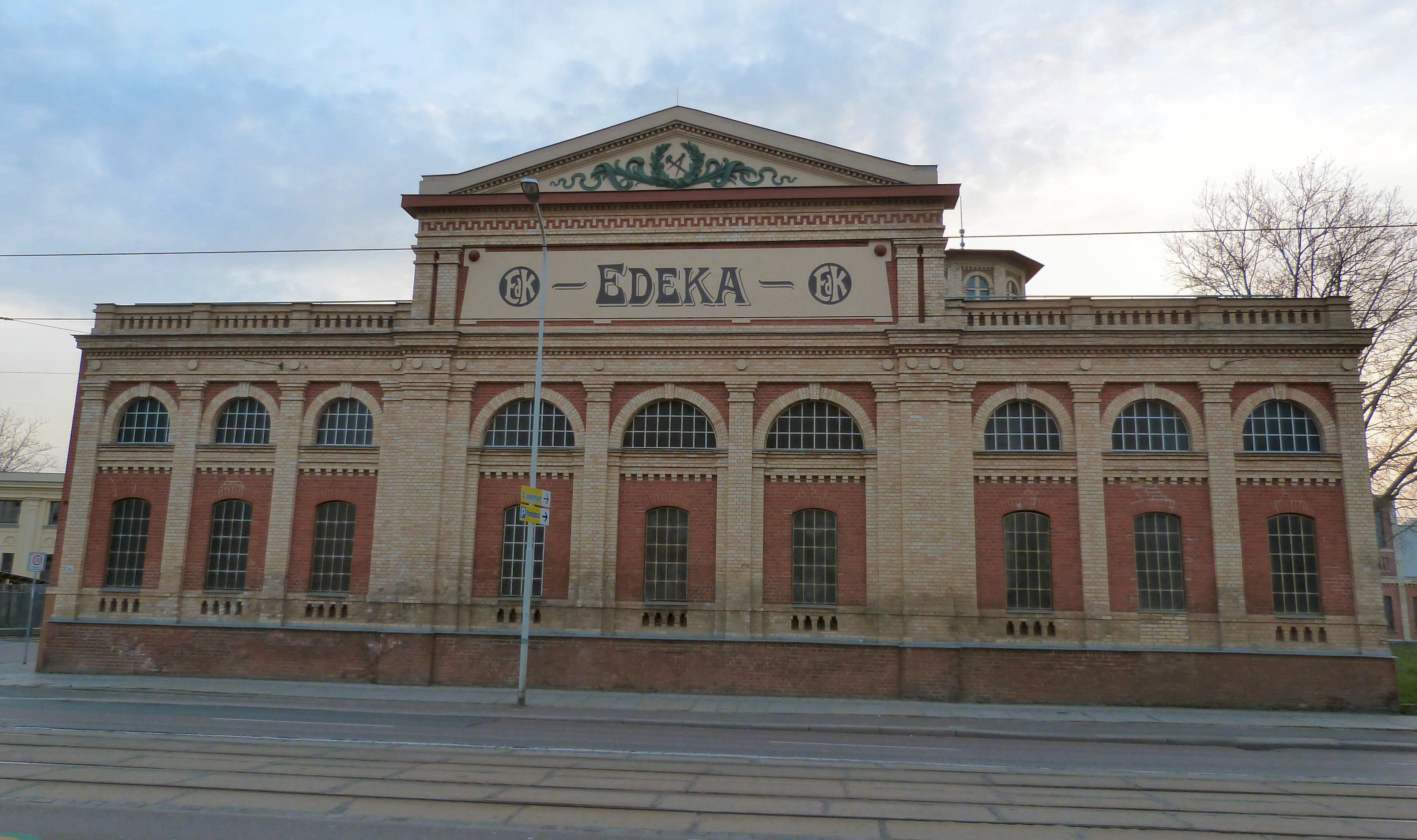 Former machine factory, today supermarket, Merseburger Strasse, Halle (Saale)